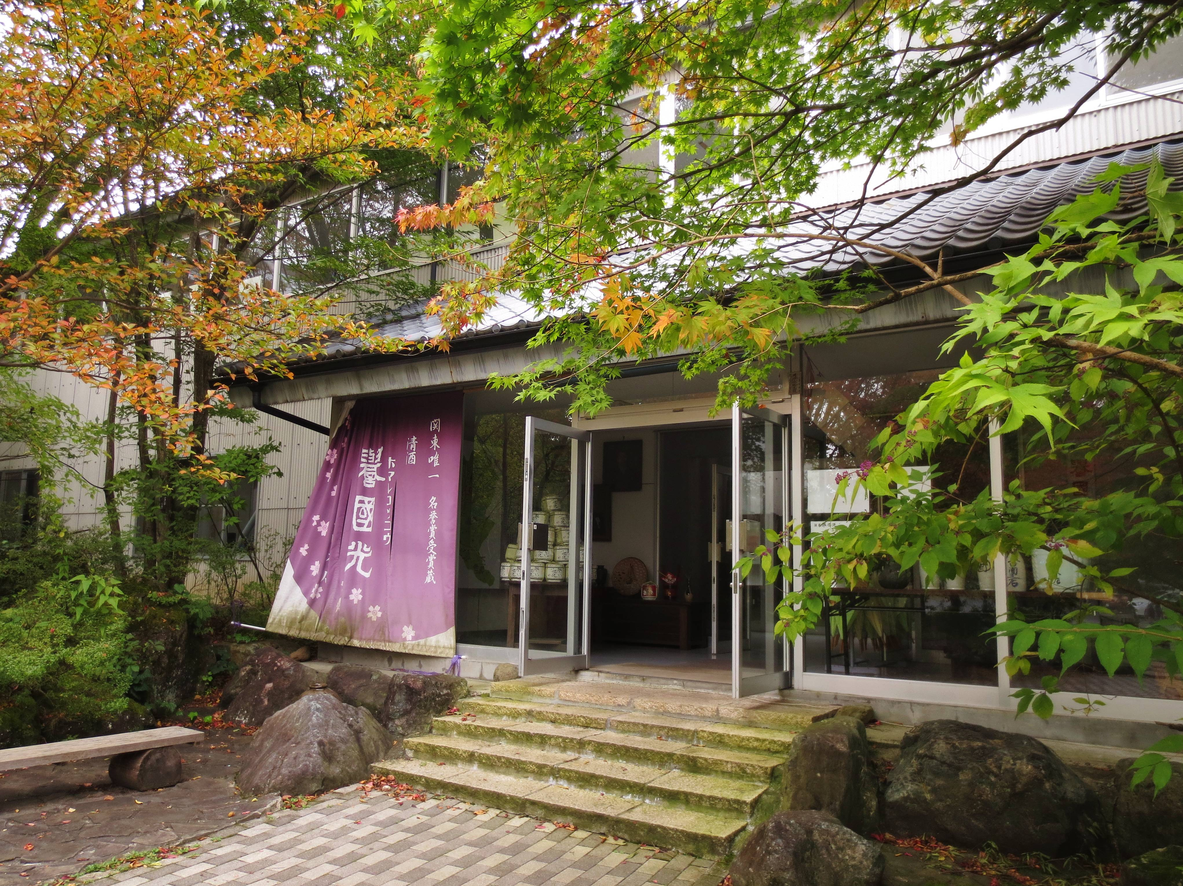 Tsuchida Shuzo brewery.